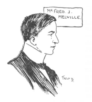 Fred Melville, Gibbons Stamp Weekly, Feb 1905, p. 108.